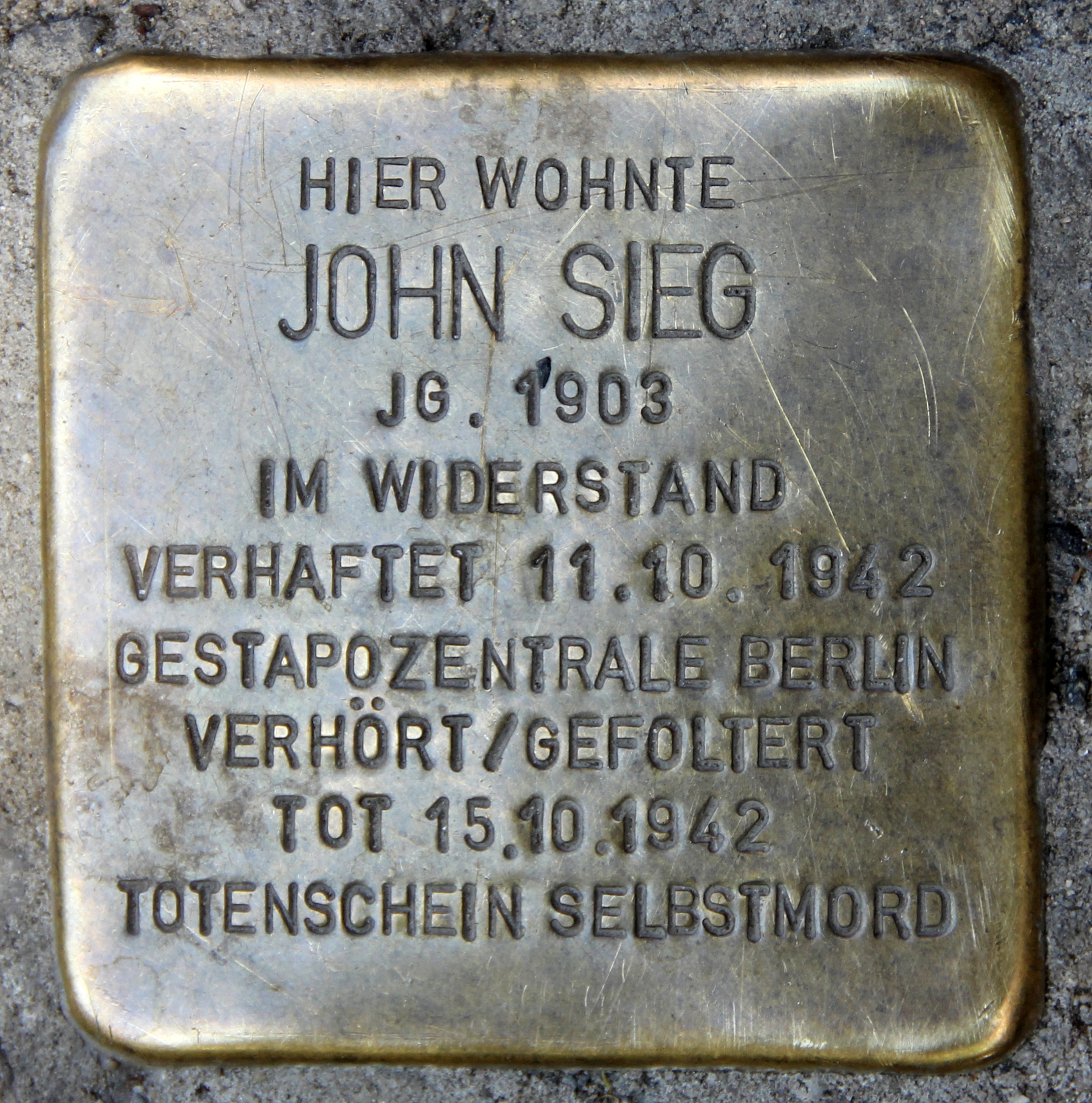 "Stolperstein" (stumbling block), John Sieg, Jonasstraße 5a, Berlin-Neukölln, Germany